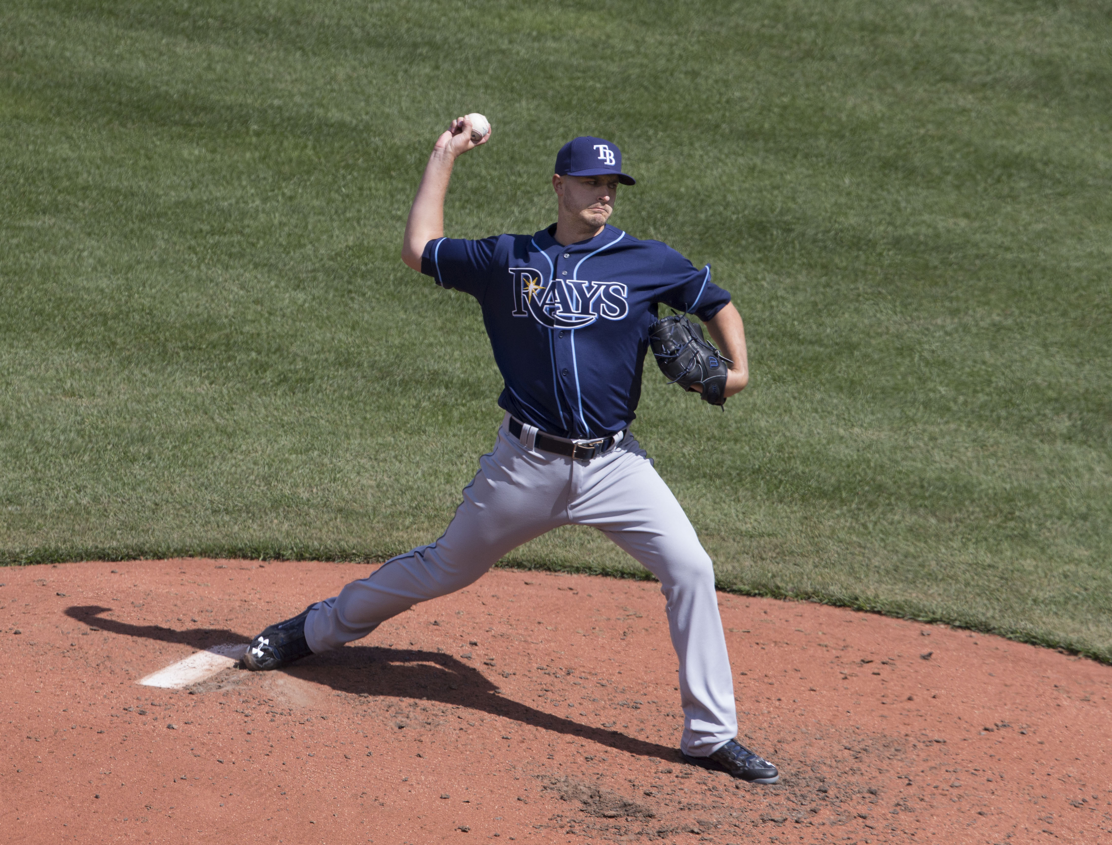 Rays at Orioles 4/10/16